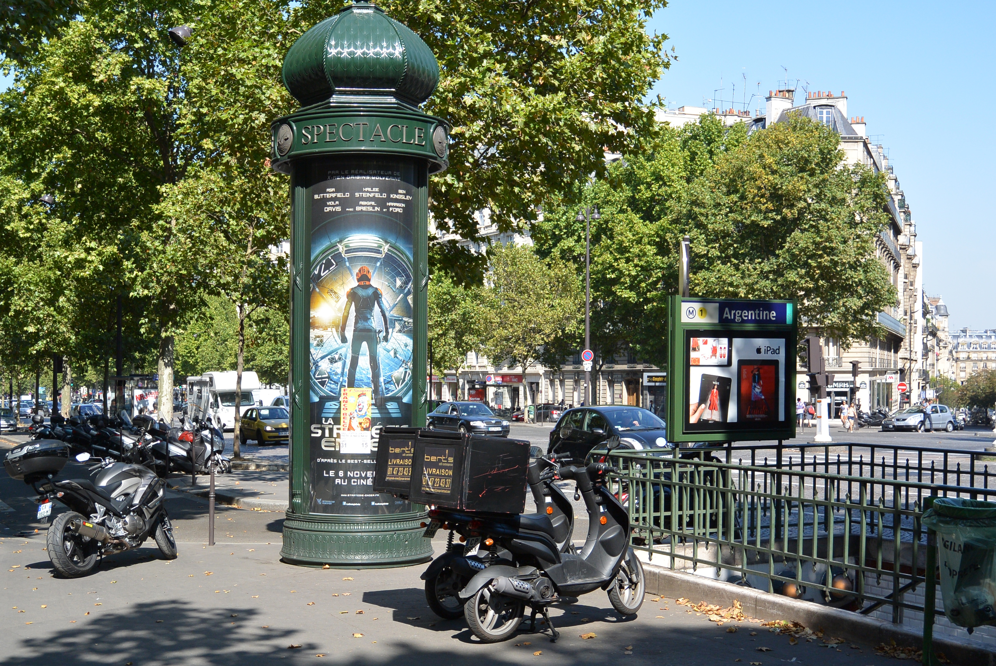 Argentine metro station, Paris.